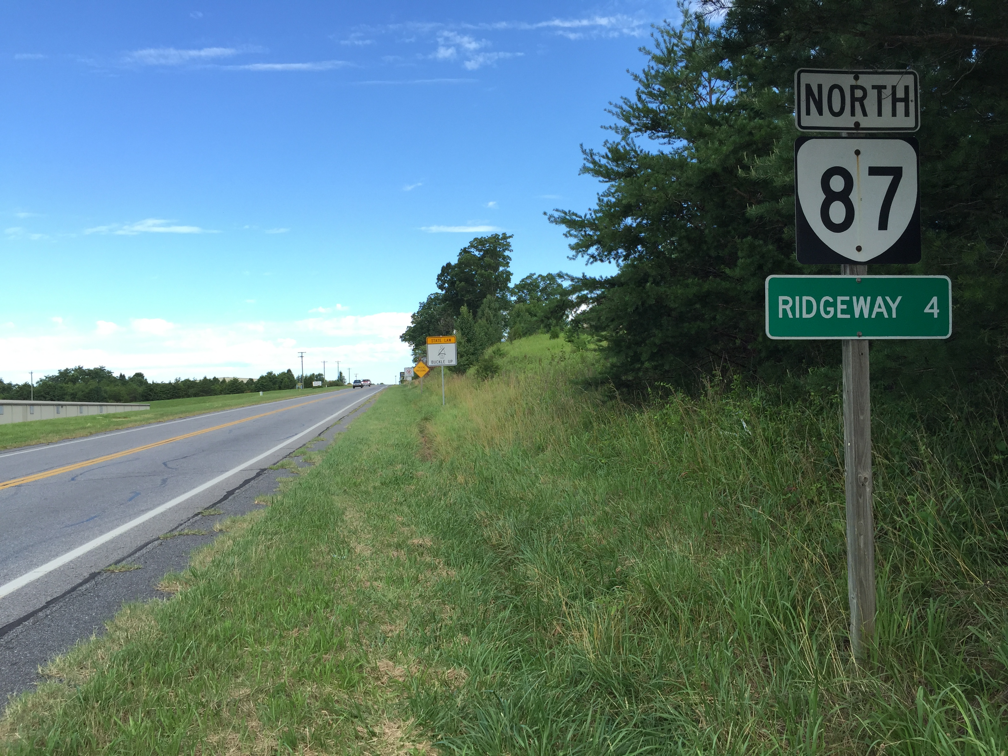 View north along Virginia State Route 87 (Morehead Avenue) just north of the North Carolina state line in southern Henry County, Virginia